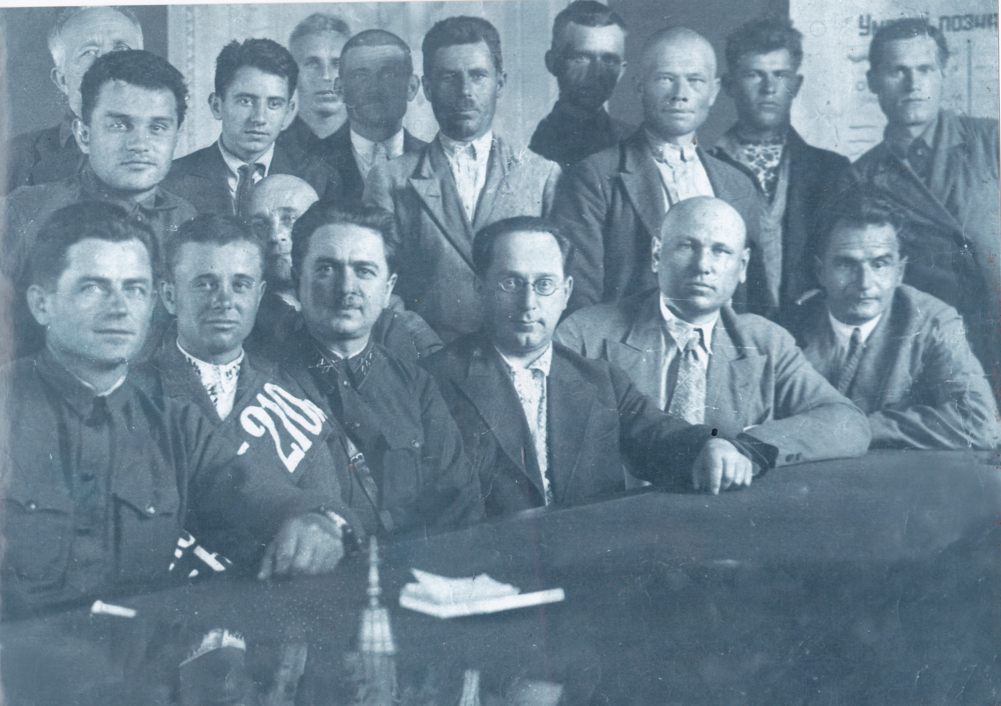 Communes in Kiev